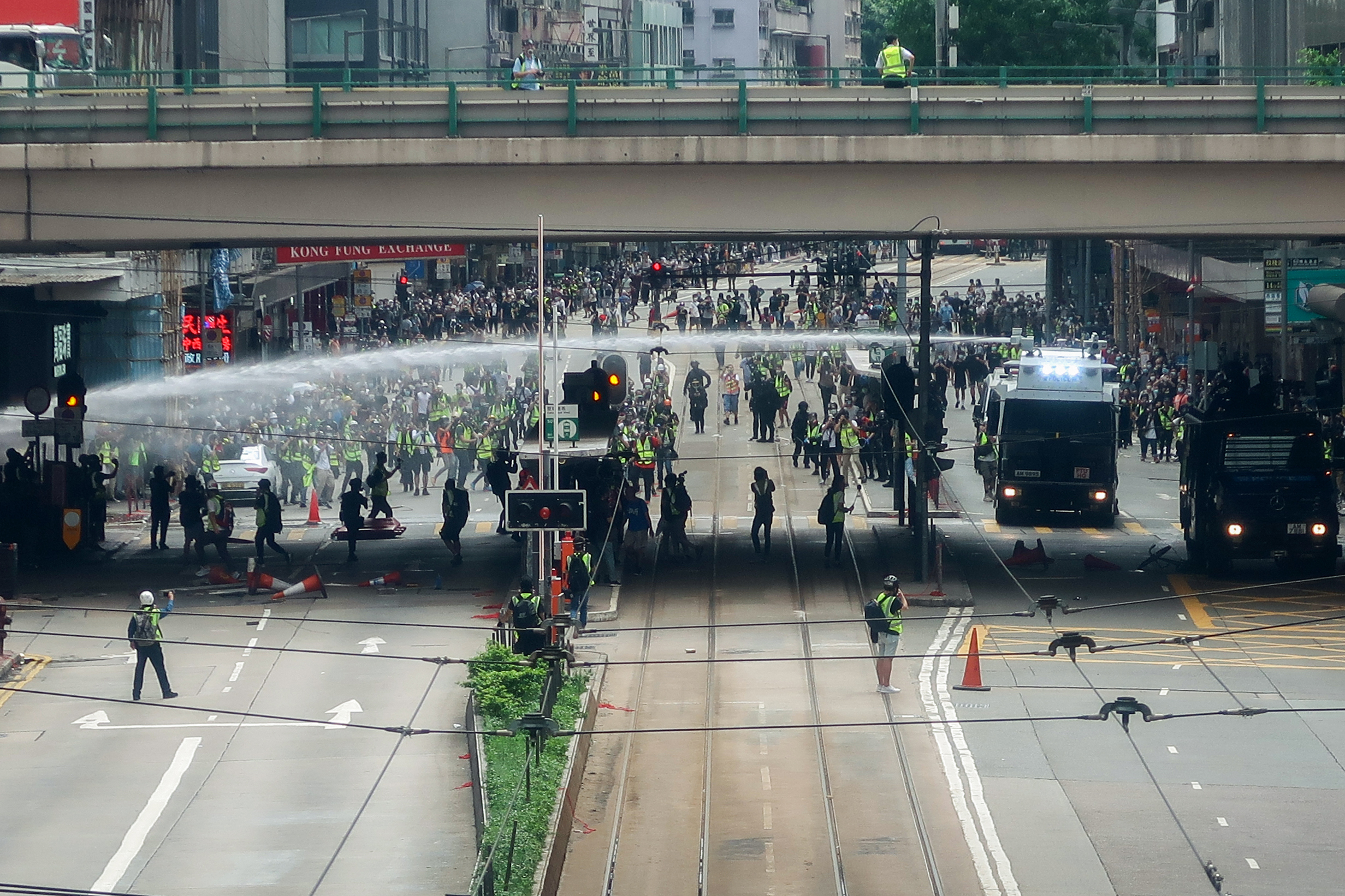 Specialised crowd management vehicles 1 release water in Hennessy Road